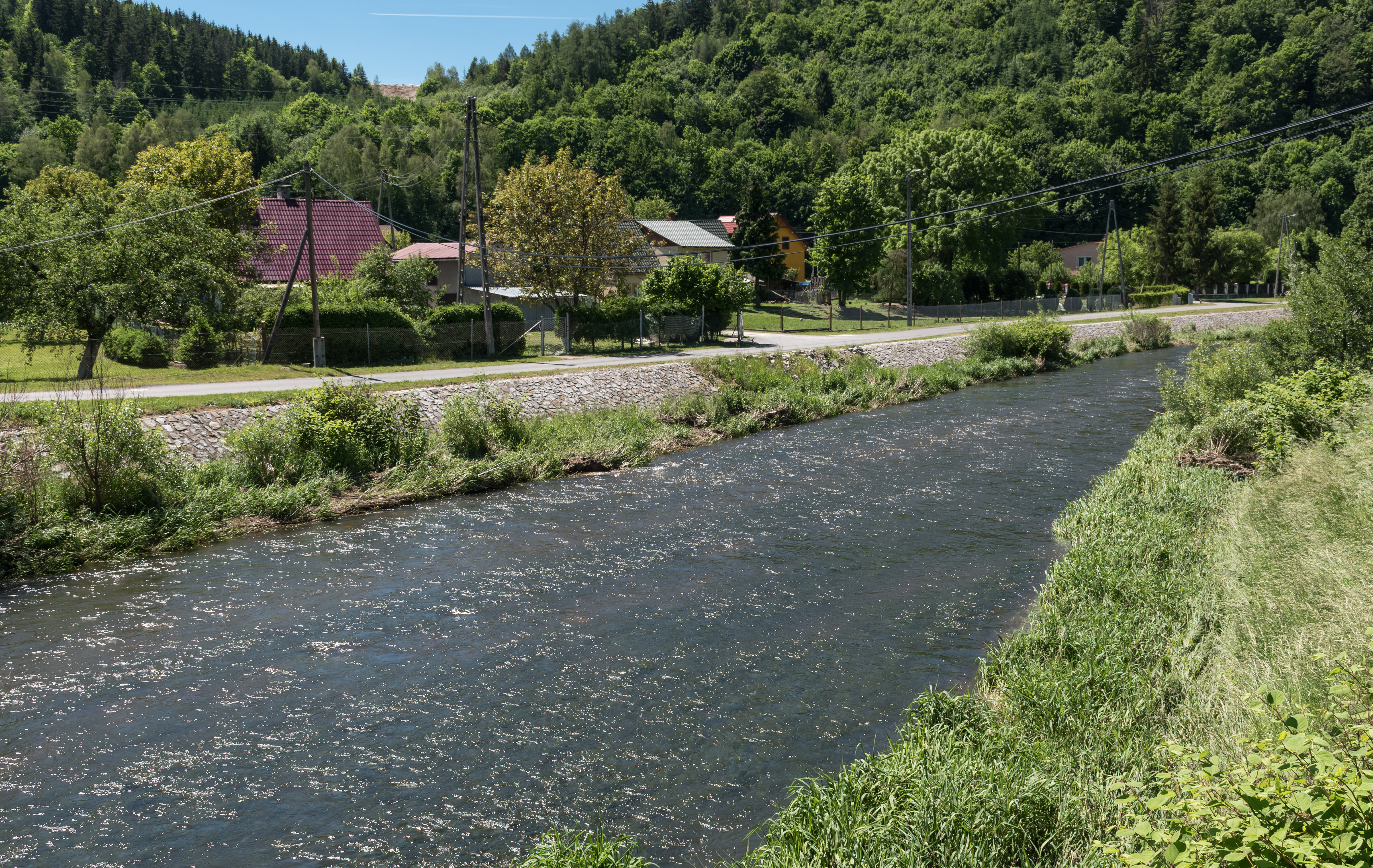 Biała Lądecka in Ołdrzychowice Kłodzkie